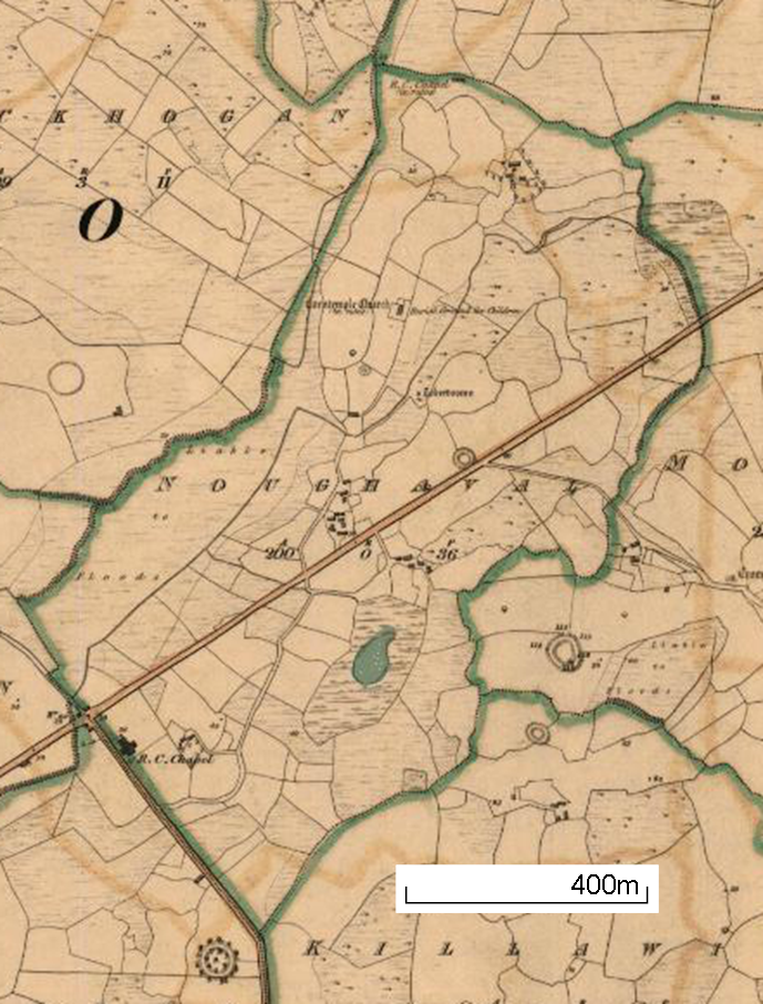 Detail of 1842 map showing Noughaval townland, Doora parish, County Clare, Ireland. The ruined Carntemple church is in the north, with a burial ground for children. The R.C. Chapel in the southwest of the townland is at the location of the present church of Saint Breckan's